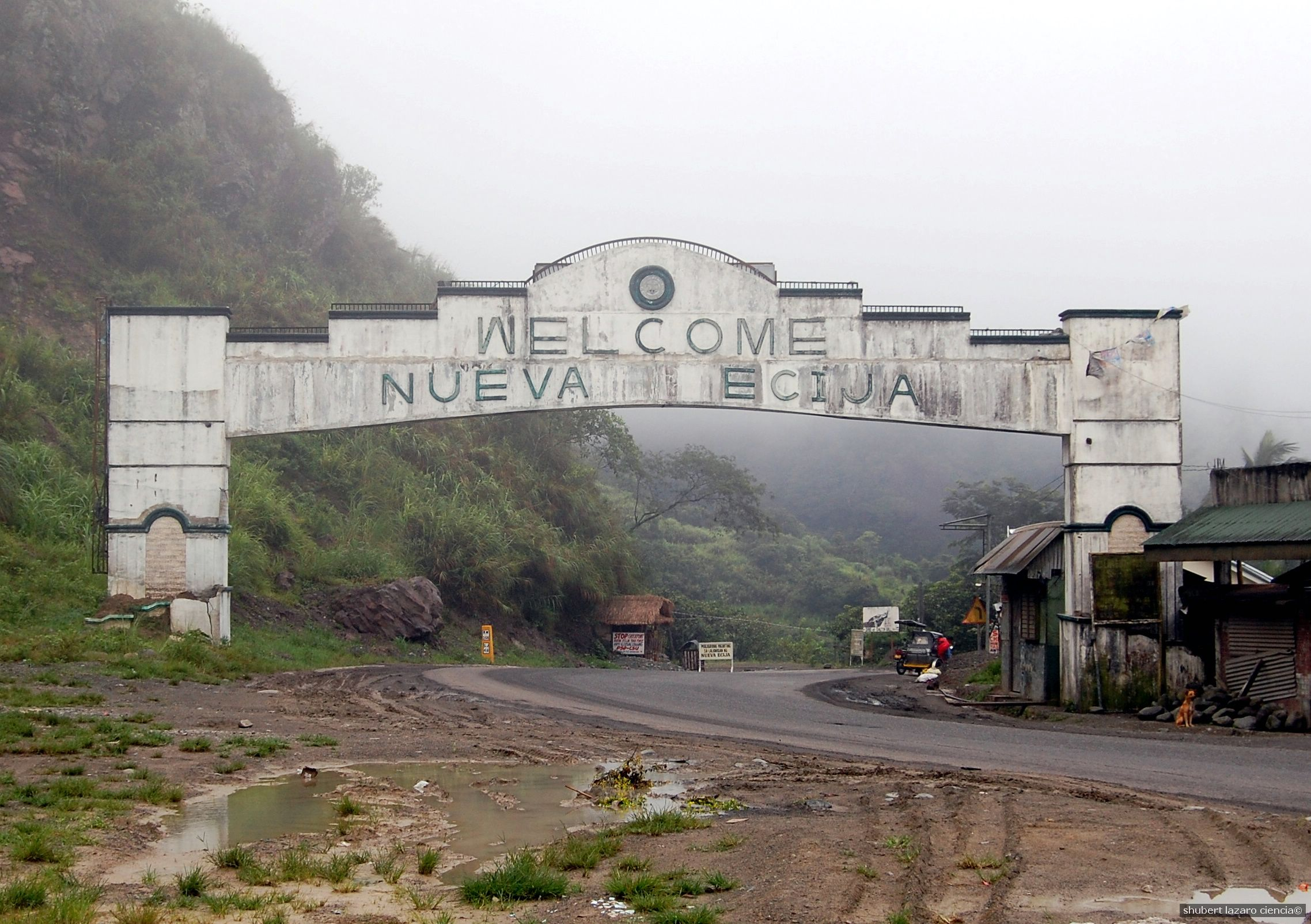 From Flickr: Dalton Pass (Nueva Vizcaya-Nueva Ecija Boundary) "MY FIRST NIKON D40 PHOTO. This stone arch high up in the Caraballo mountain range divides the province where I grew up (Nueva Vizcaya) and the province where I now reside (Nueva Ecija). Both were named after Spanish localities where their Spanish discoverers came from. Both will forever be special. Nikon D40 (SWP-Kiangan LGU Consultative Meeting, May 2007). "